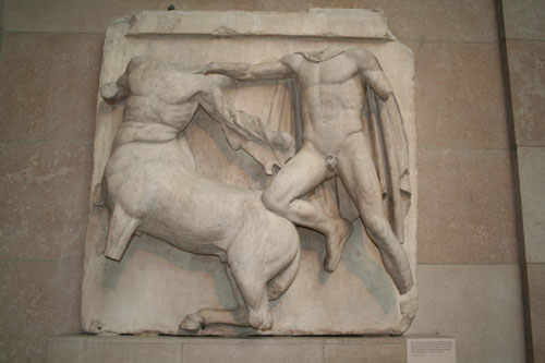 Metope from the south side of the Parthenon, Athens.